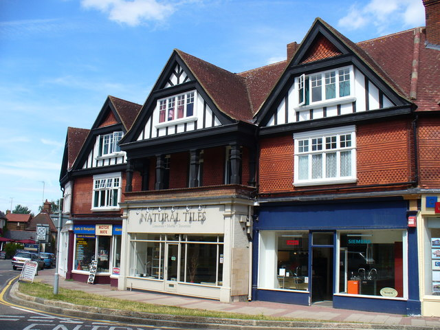 Central Weybridge Mix of mock Tudor with traditional Surrey tile-hanging on the corner of Bridge and Heath Roads.